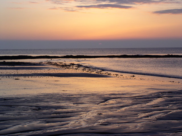 Sunset North Shore Sunset on north shore at low tide.